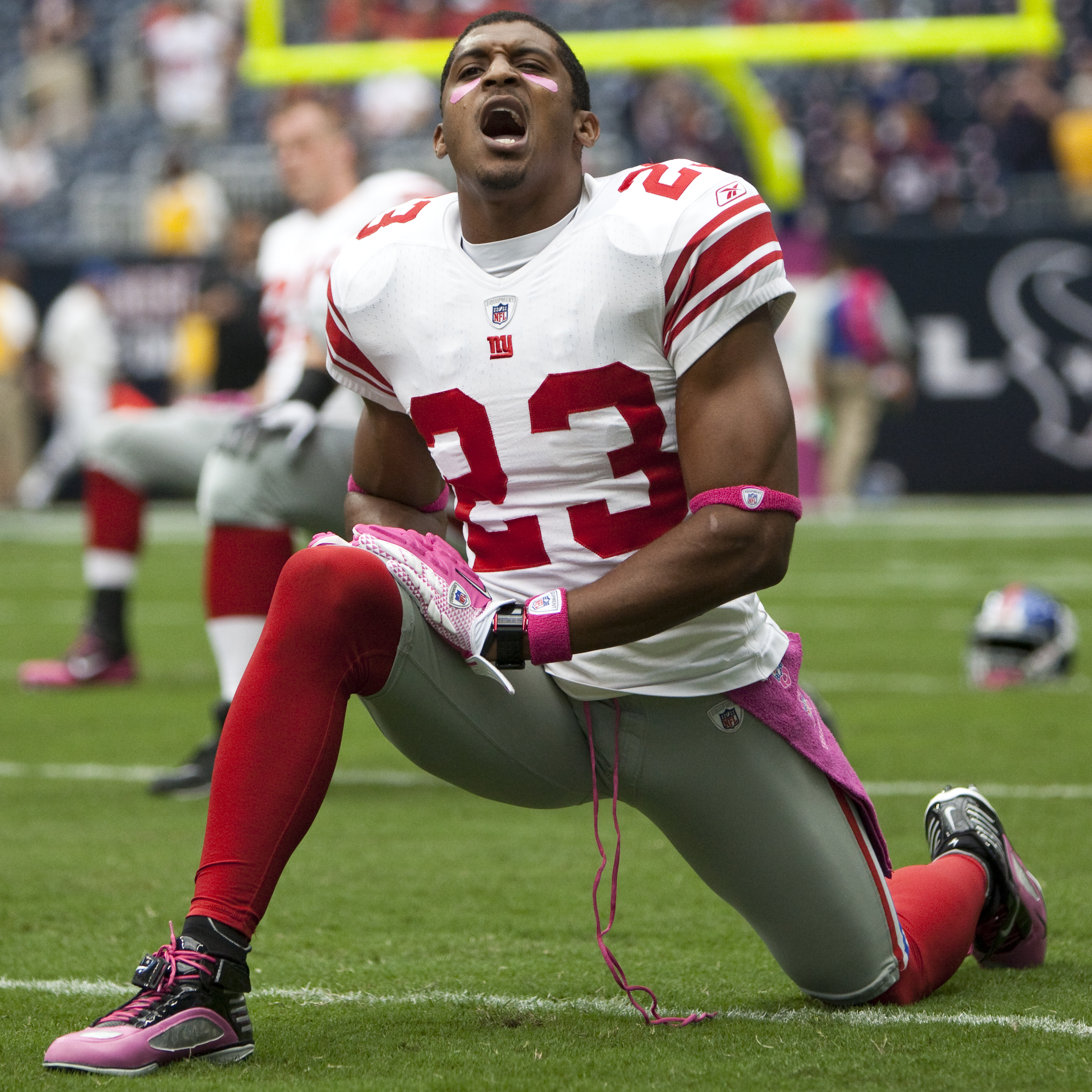 Corey Webster pre game stretch. Houston Texans Vs. New York Giants, Reliant Stadium. Houston, Tx. Oct. 10, 2010